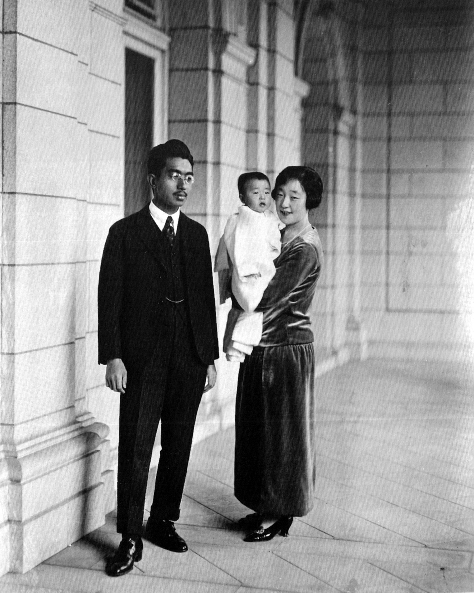 皇太子裕仁親王(Crown Prince Hirohito/Emperor Shōwa)と、第一皇女・照宮成子内親王(Teru-no-miya Shigeko)を抱く良子妃(Nagako/Empress Kōjun)。